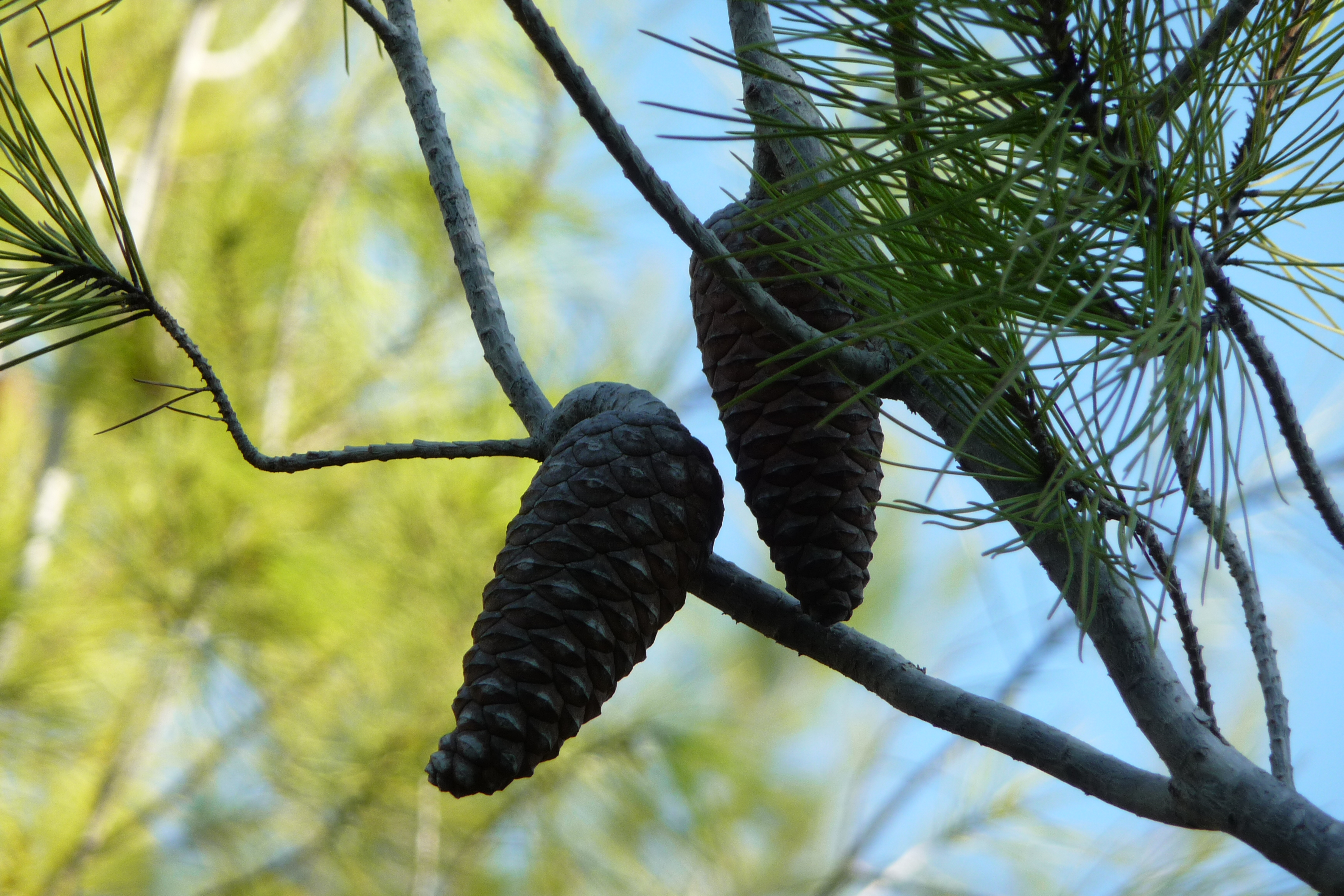 IBet Oren